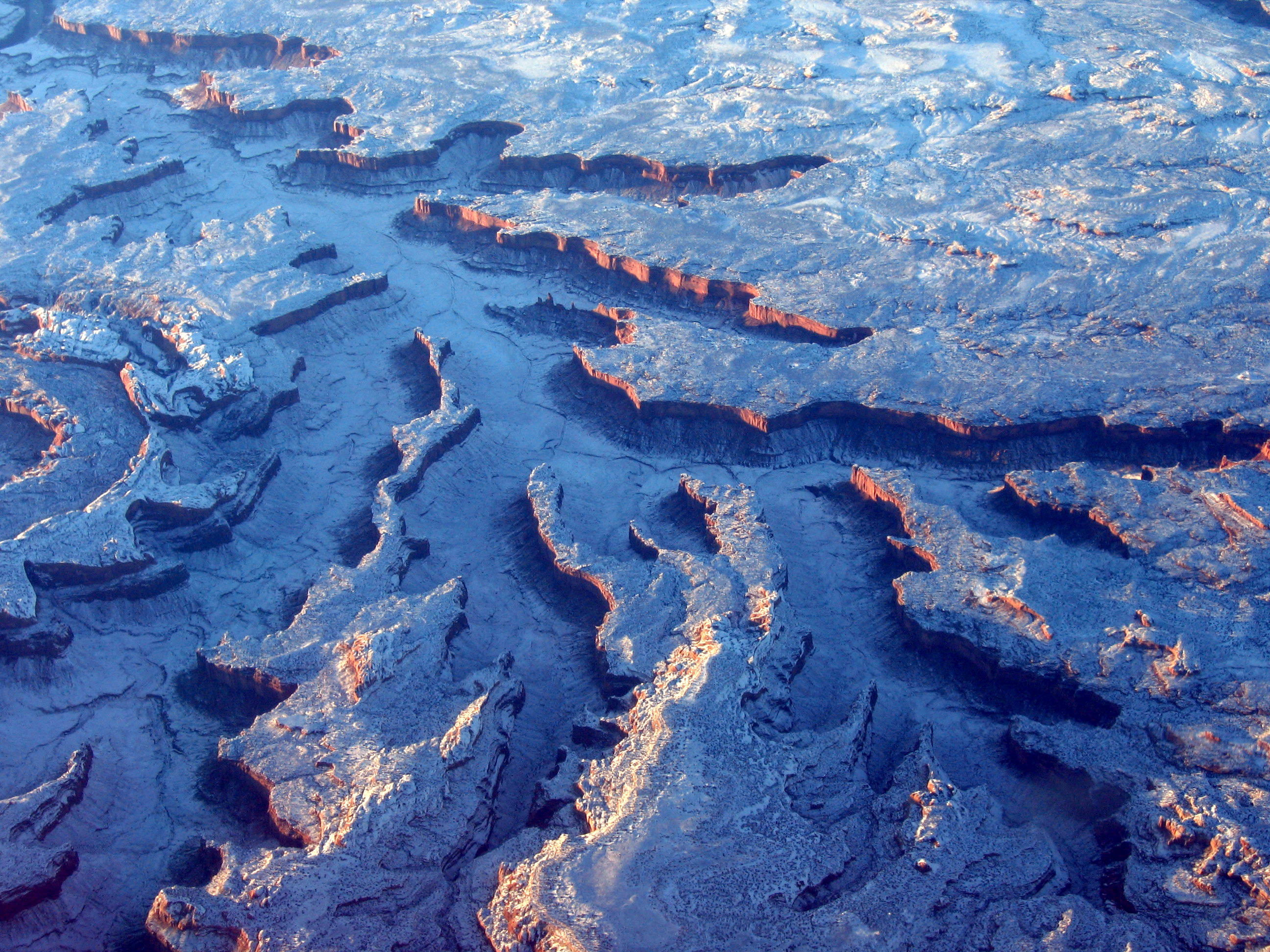 Canyon De Chelly in December Snow